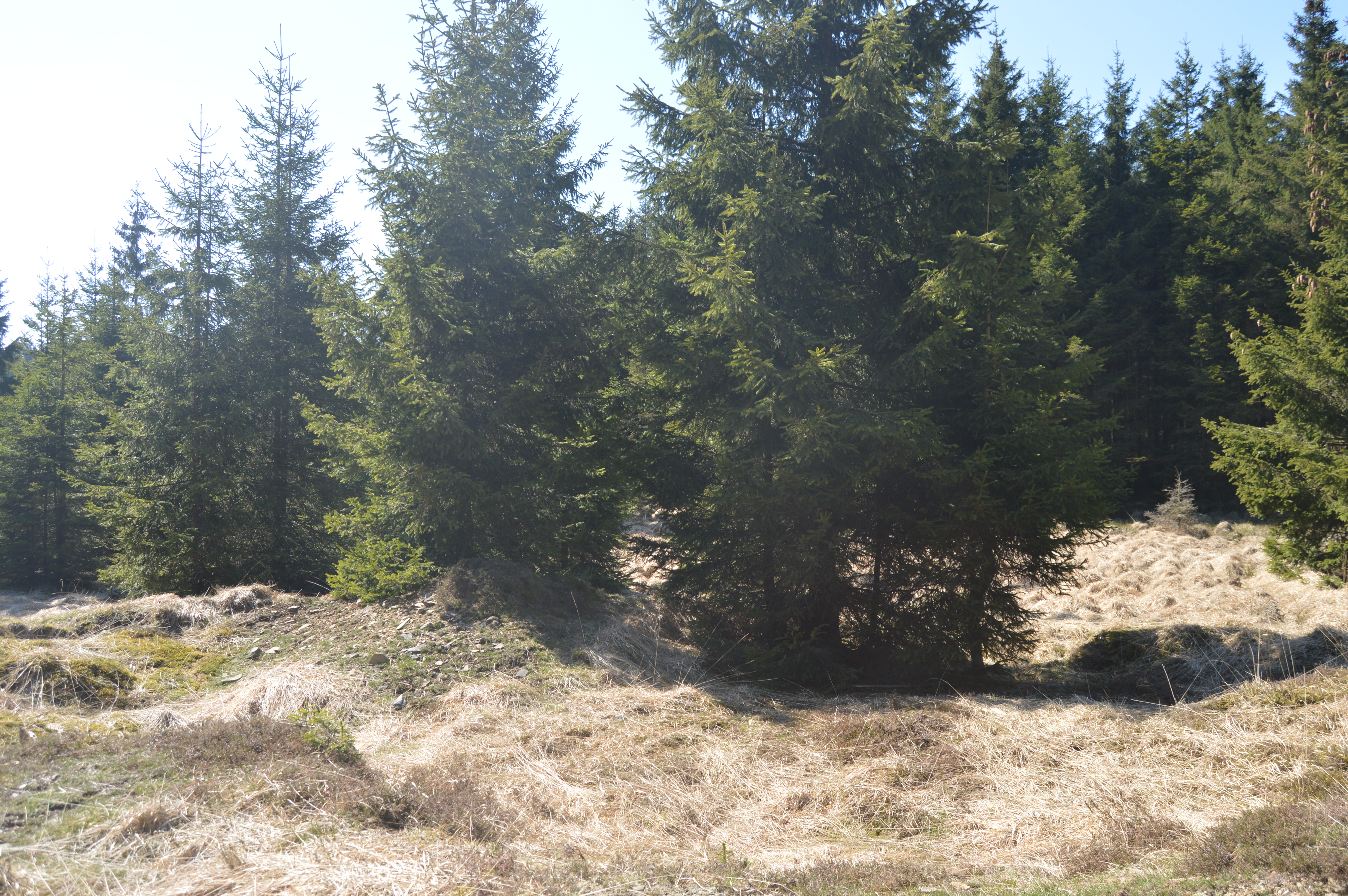 The Trou des Massotais ("Leprechaun Hole"), on the PLteau des Tailles in Belgium, an old gold mine digged by Celts; panning remains on the "Noir Ru" river (aka Martin Moulin)